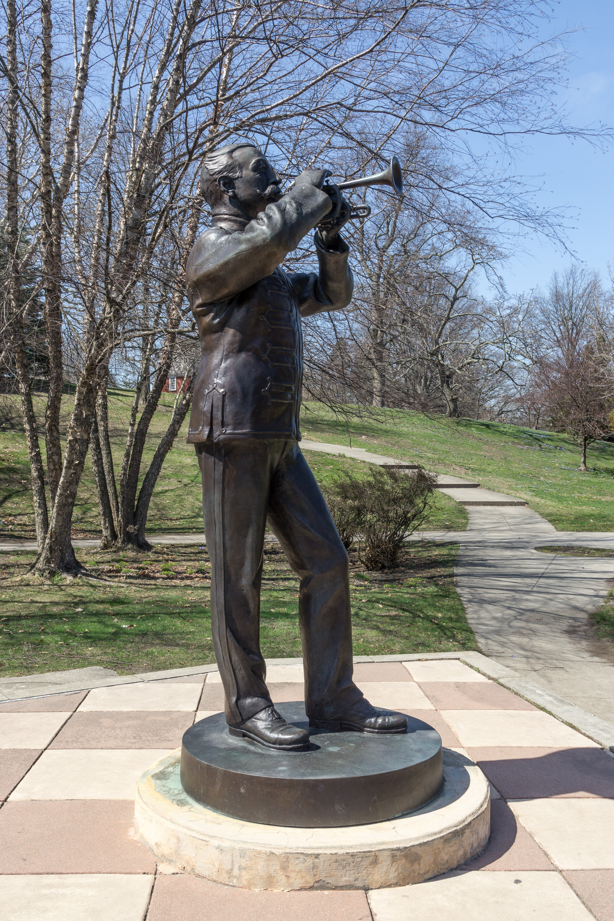 Bowen R. Church statue, Roger Williams Park, Providence, Rhode Island. Created by Aristide Berto Cianfarani and cast by the Gorham Company